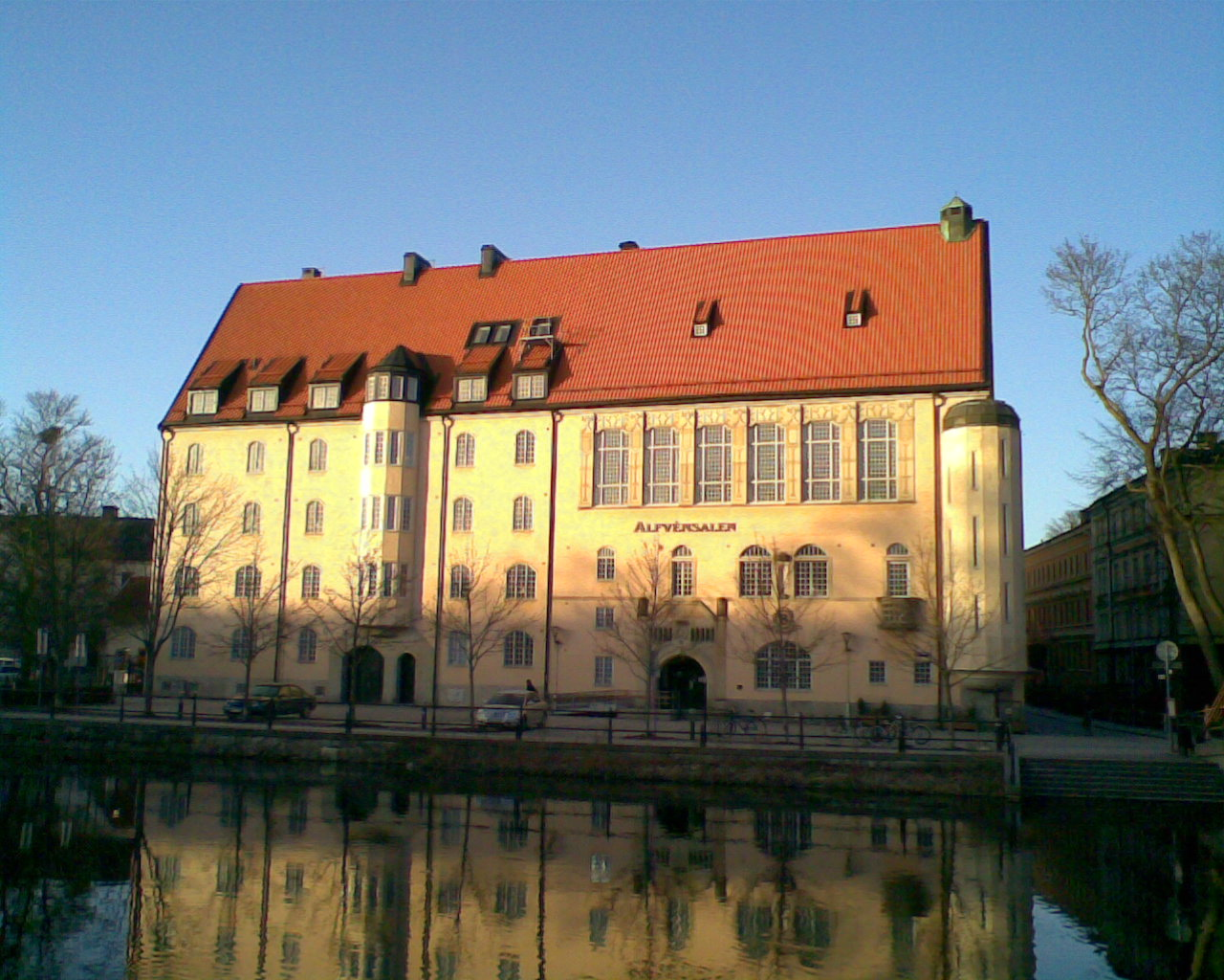 Fomer YMCA-building from 1911 in Uppsala, Sweden.